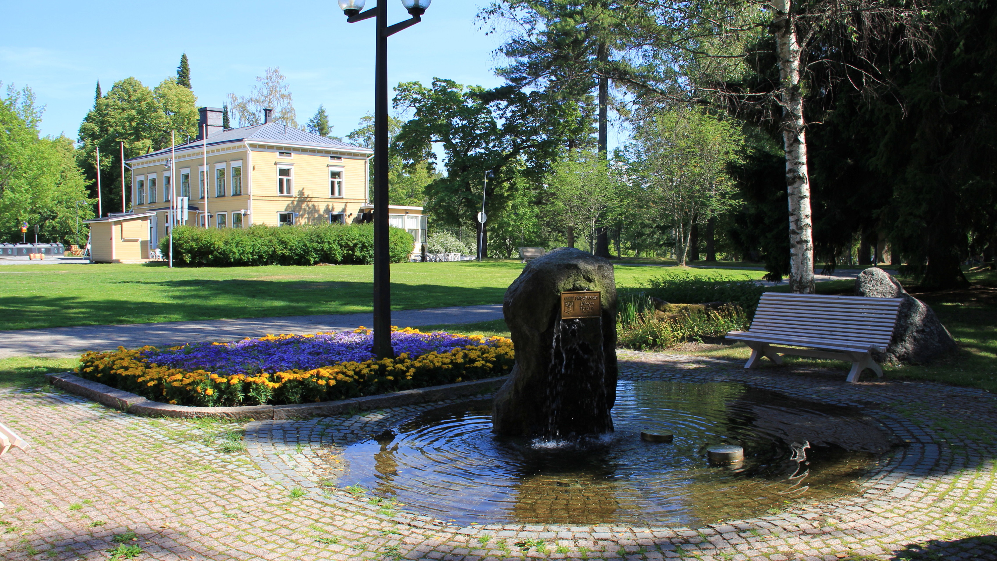 Umeå Park area in Hietalahti Park, Vaasa, Finland, dedicated to Vaasa's sister city Umeå in Sweden. - Background building Villa Hietalahti.